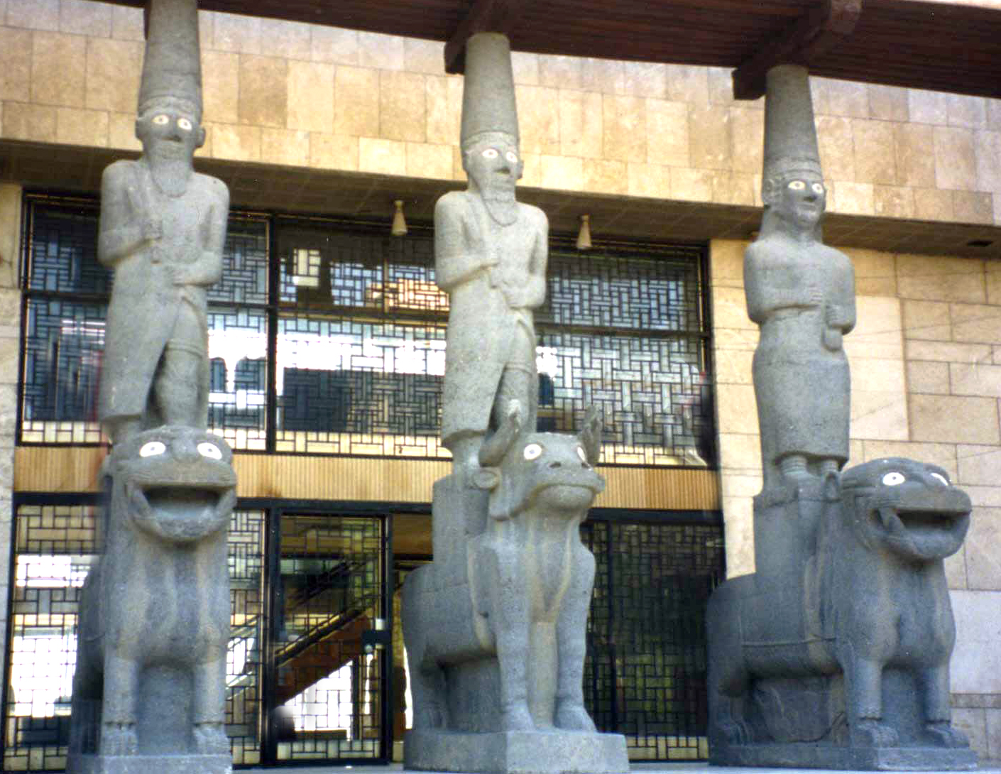 the entrance of Aleppo museum - Syria